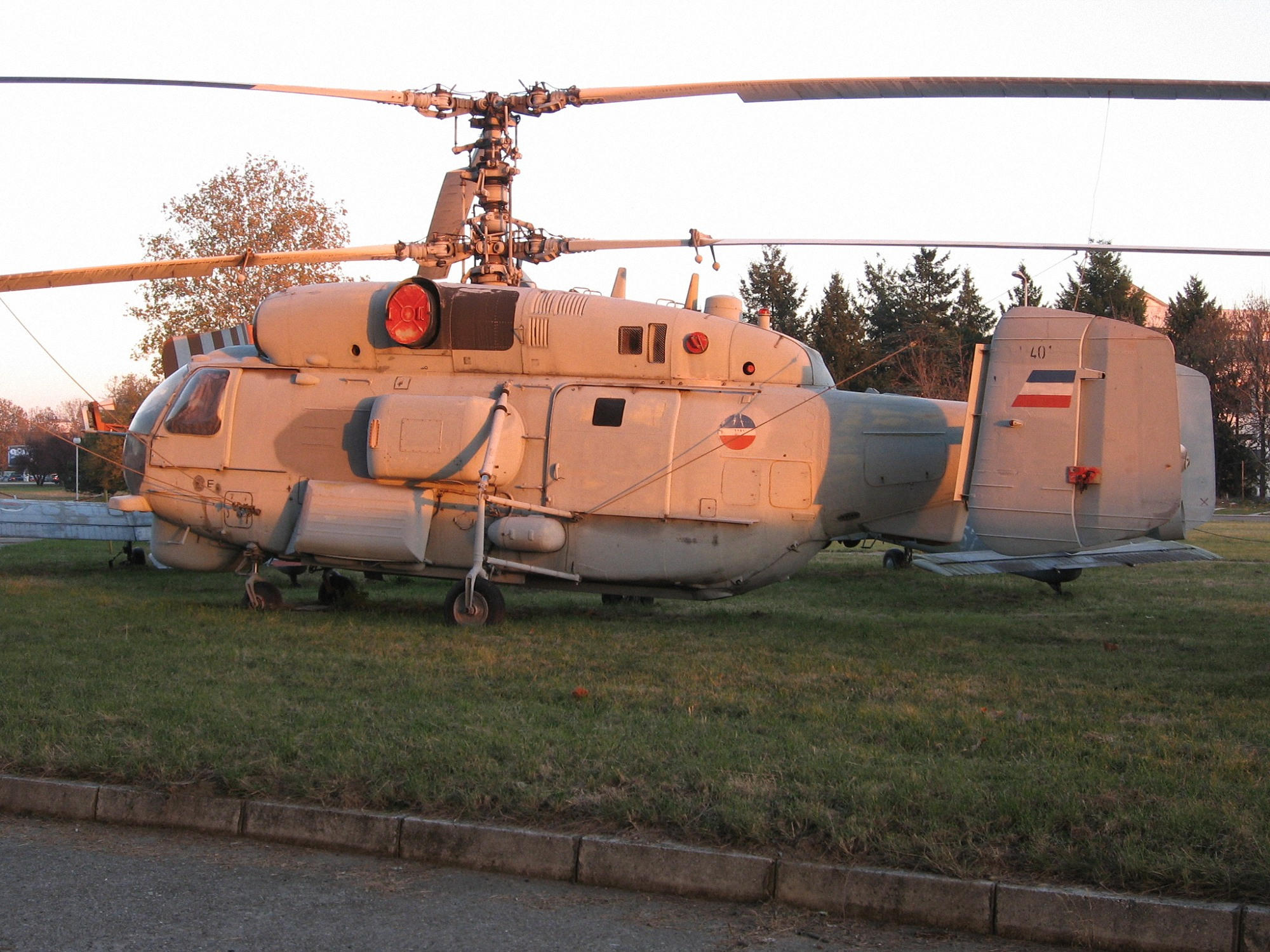 Kamov Ka-28